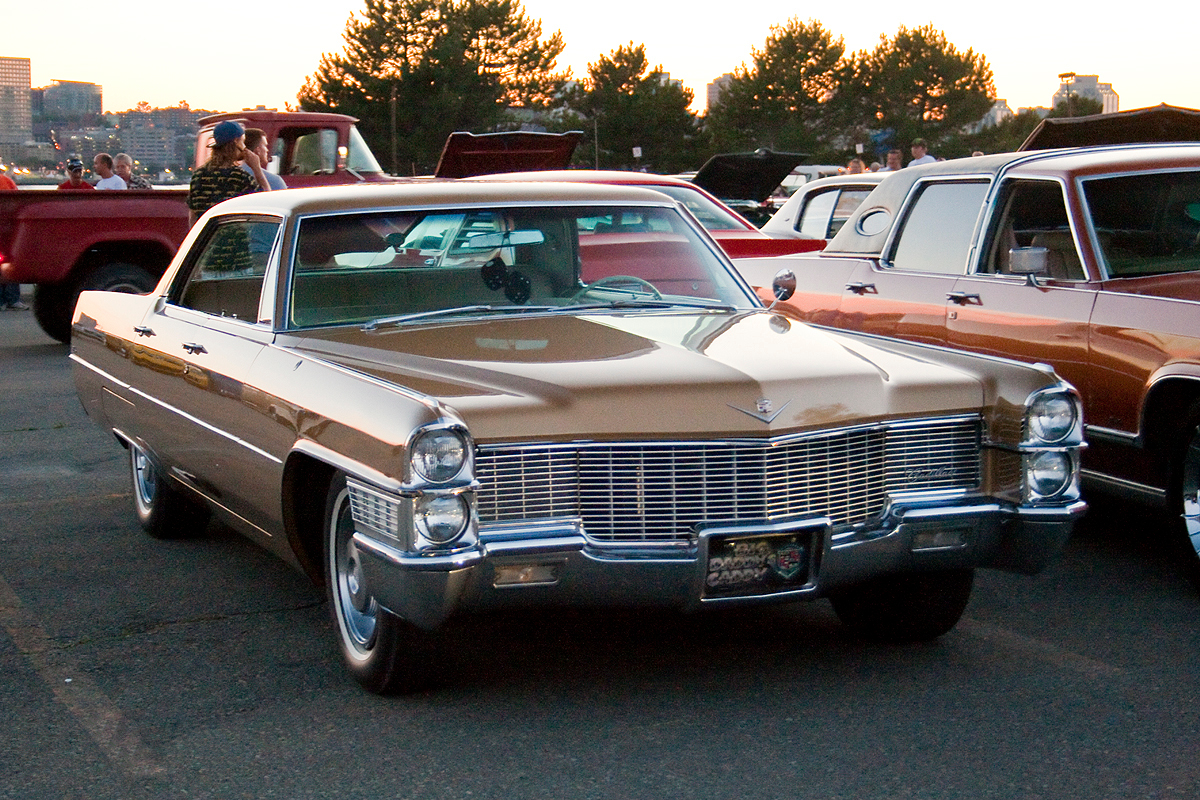 1965 Cadillac